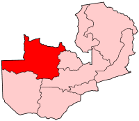 Map of Zambia showing North-Western province.